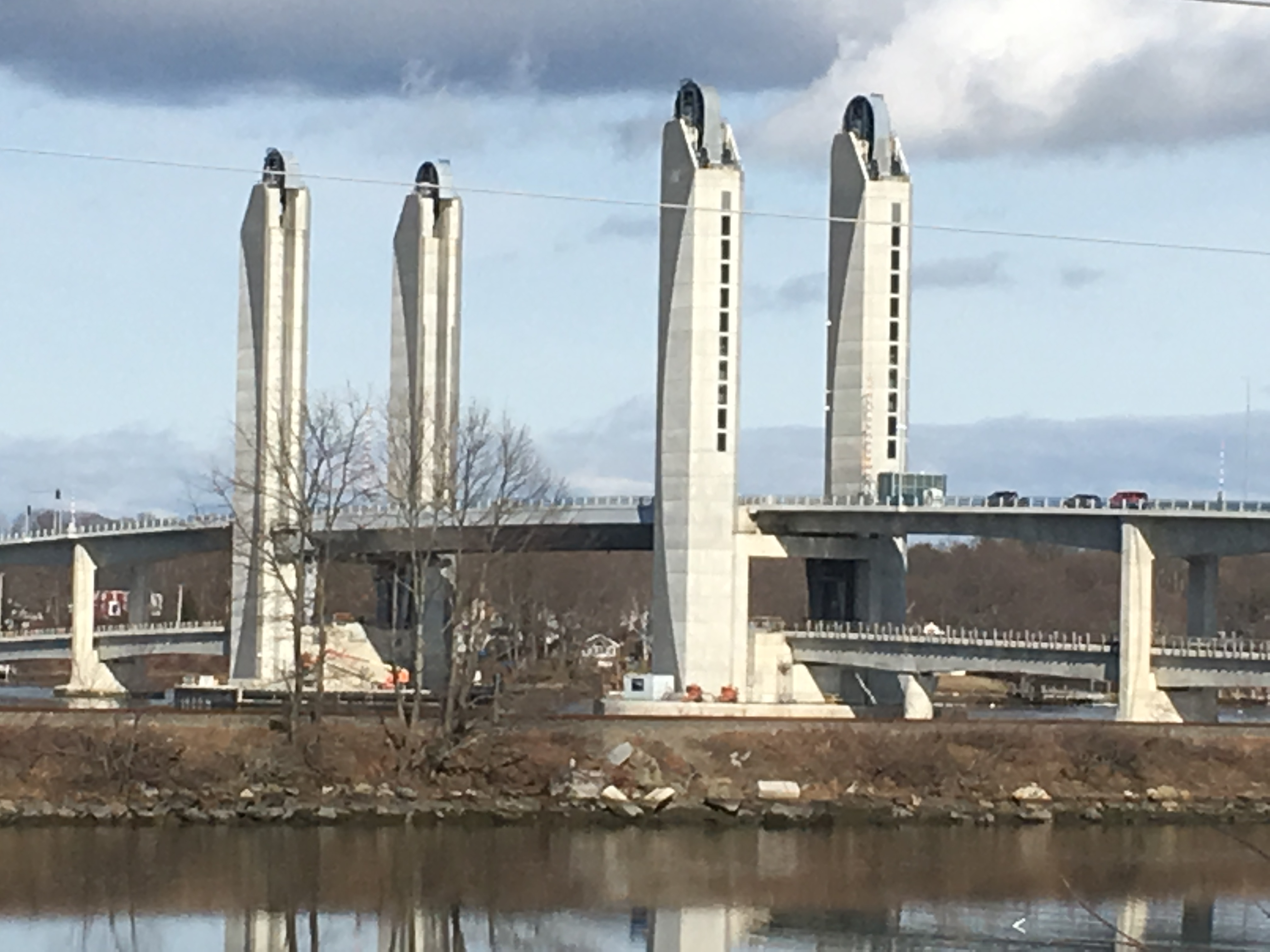 Photo of the Sarah Mildred Long Bridge, a lift bridge spanning the Piscataqua River between Portsmouth, New Hampshire, and Kittery, Maine, carrying traffic of U.S. Route 1 Bypass. This is the replacement bridge, which opened in March 2018. View from the New Hampshire side.